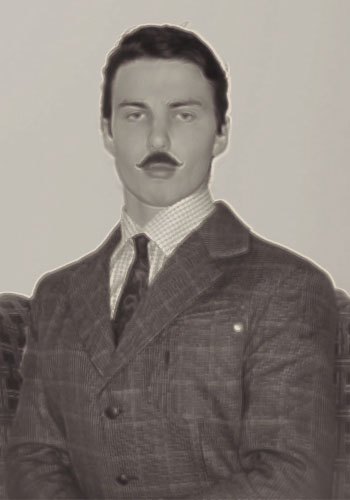 Portrait of a young A.J. Cook.